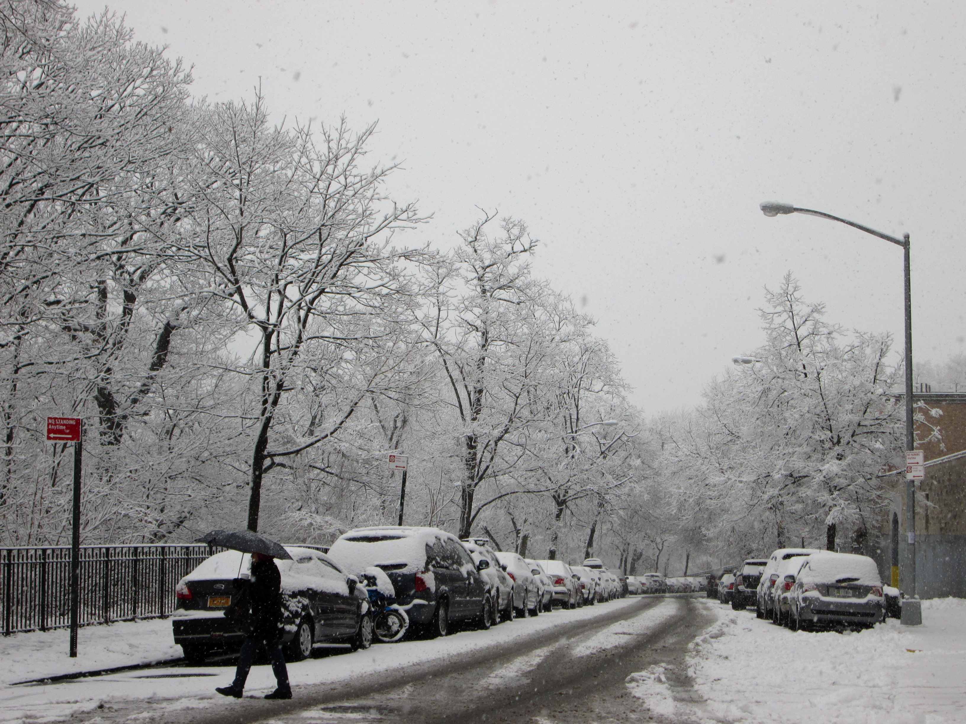 Fort Tryon Park was created when philanthropist John D. Rockefeller, Jr. began to buy up the county estates in the area where the Battle of Washington Heights was fought in the Revolutionary War, in order to create a park. He engaged Frederick Law Olmsted, Jr. of the Olmsted Brothers firm to design the park (James W. Dawson created the planting plan), and gave it to the city in 1931; the park was completed in 1935. Rockefeller also gave to the Metropolitan Museum of Art a collection of medieval art, and the museum built The Cloisters in the park to house it, completing it in 1939. The park extends from West 190th Street to Dyckman Street and from Broadway to Riverside Drive/West Side Highway. The main entrance to the part is at Margaret Corbin Circle, at the intersection of Fort Washington Avenue and Cabrini Boulevard. The park was added to the NRHP in 1978 and was designated a NYC Scenic Landmark in 1983. (Sources: Guide to NYC Landmarks (4th ed.) and AIA Guide to NYC (5th ed.)) A strip of the park, now called "Cabrini Woods" (2017), runs along the west side of Cabrini Boulevard from just below West 190th Street to the main entrance, as seen in this image.